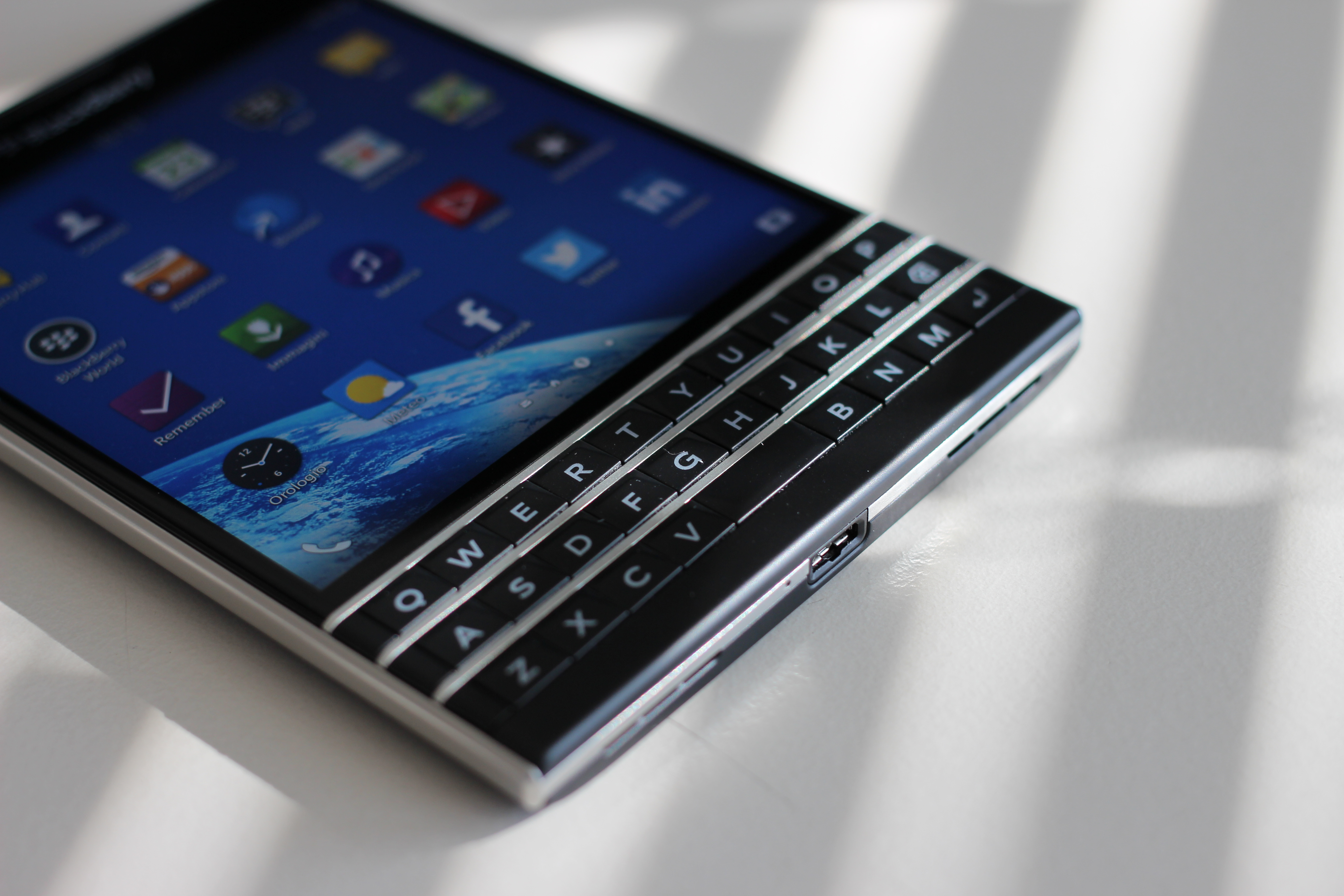 BlackBerry Passport